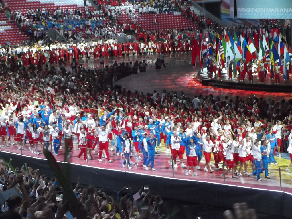 Russian team at the parade on Kazan Arena at the closing of 2013 Summer Universiade in Kazan